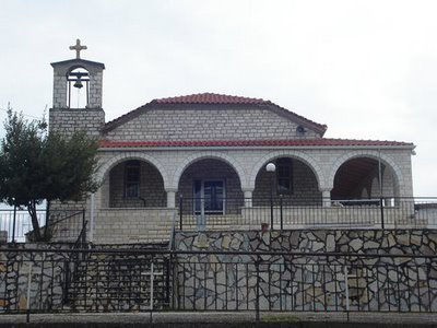 Saint Nicholaos church in Dryofyto, Preveza, Greece